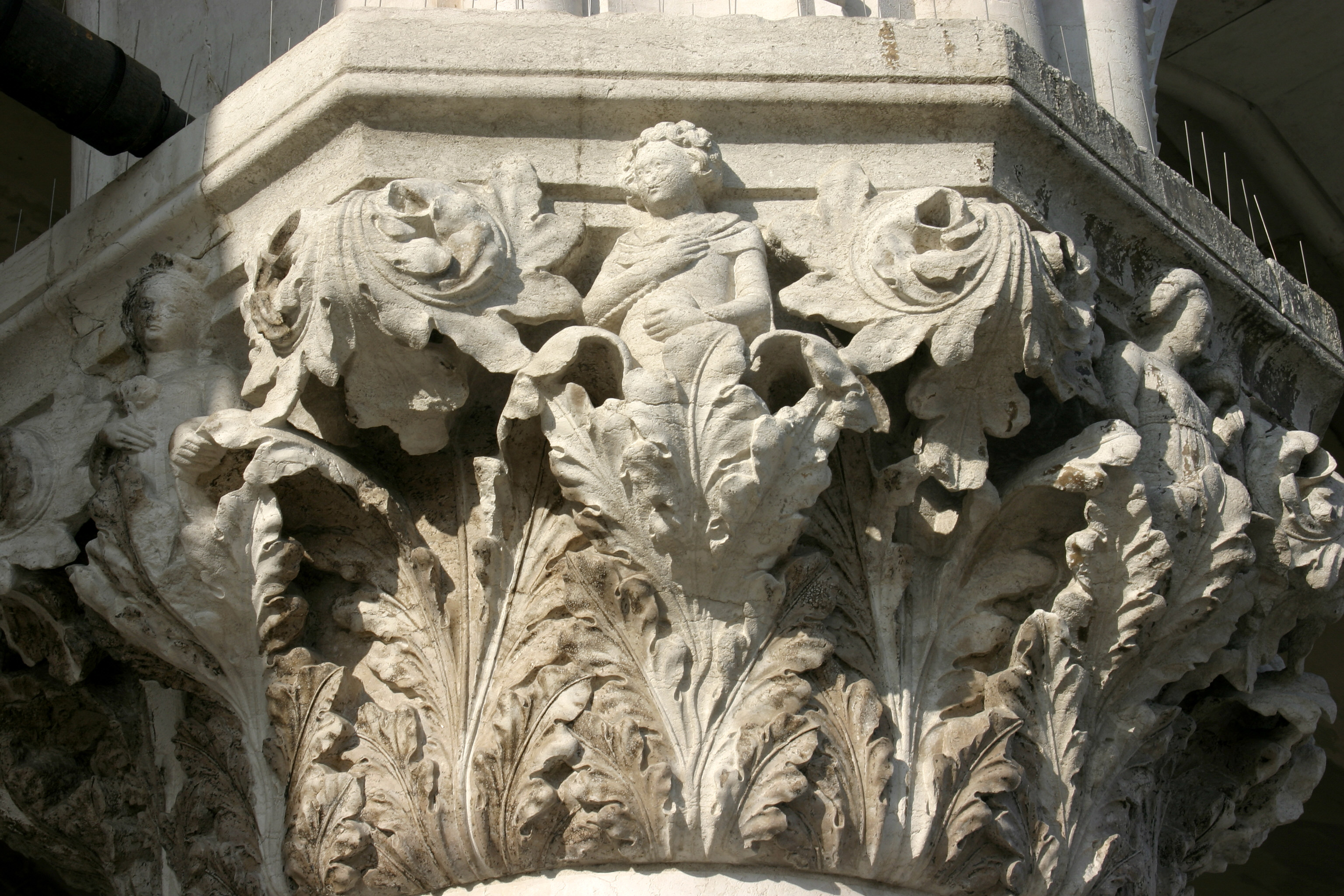 Venice - Doge’s Palace – Capital # 10